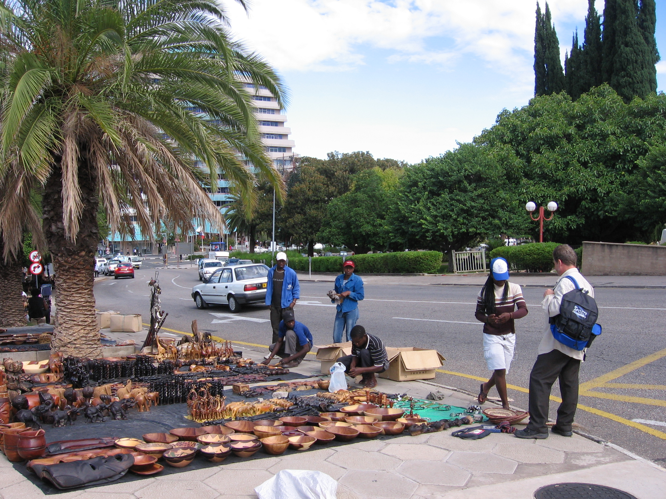 sidewalk sale of african wood crafts